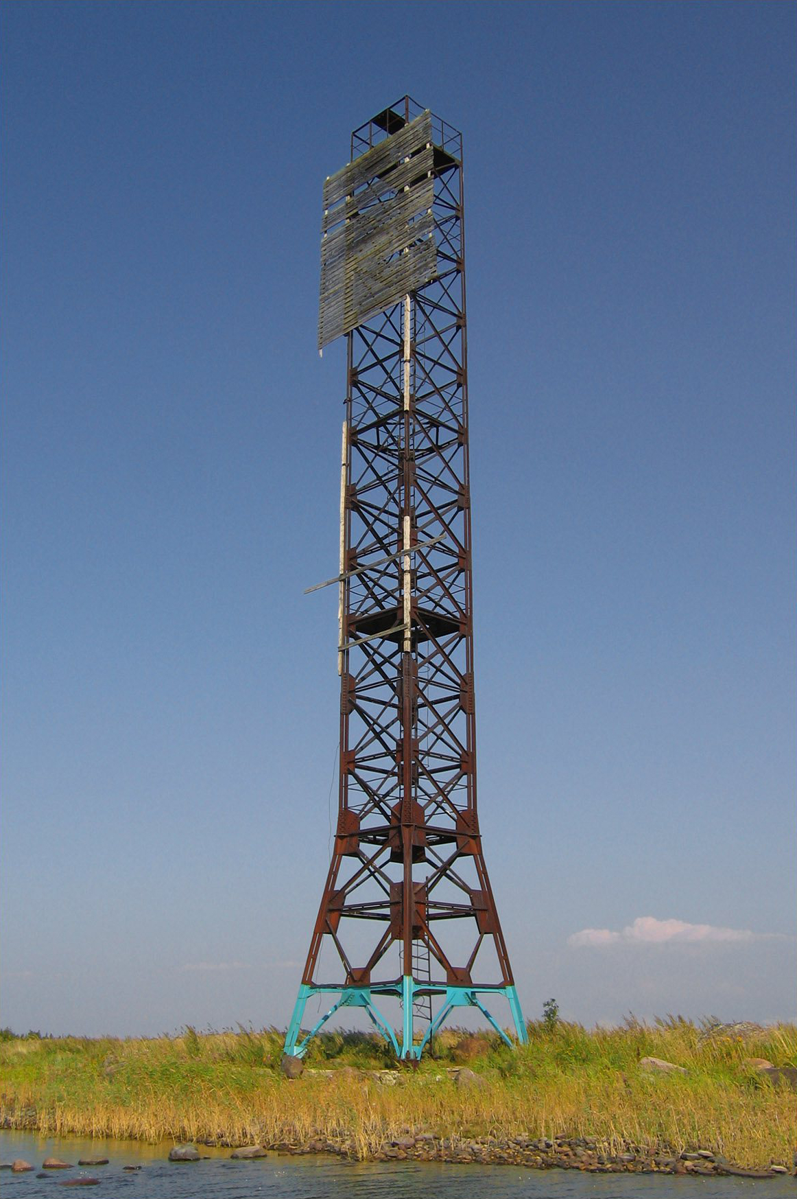 Saastna daymark